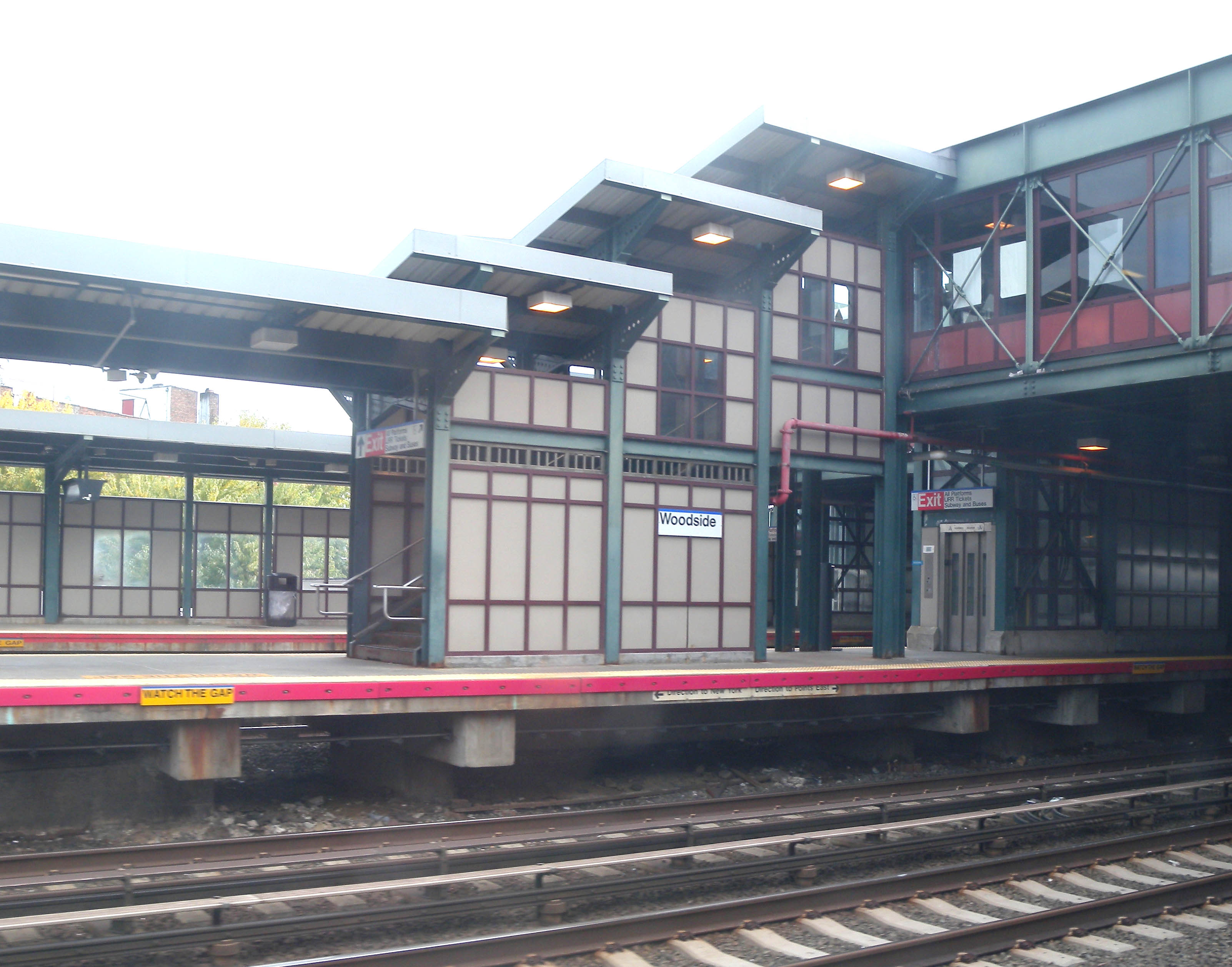 Looking northeast from an eastbound train at island platform of Woodside Station of LIRR on a sunny midday.